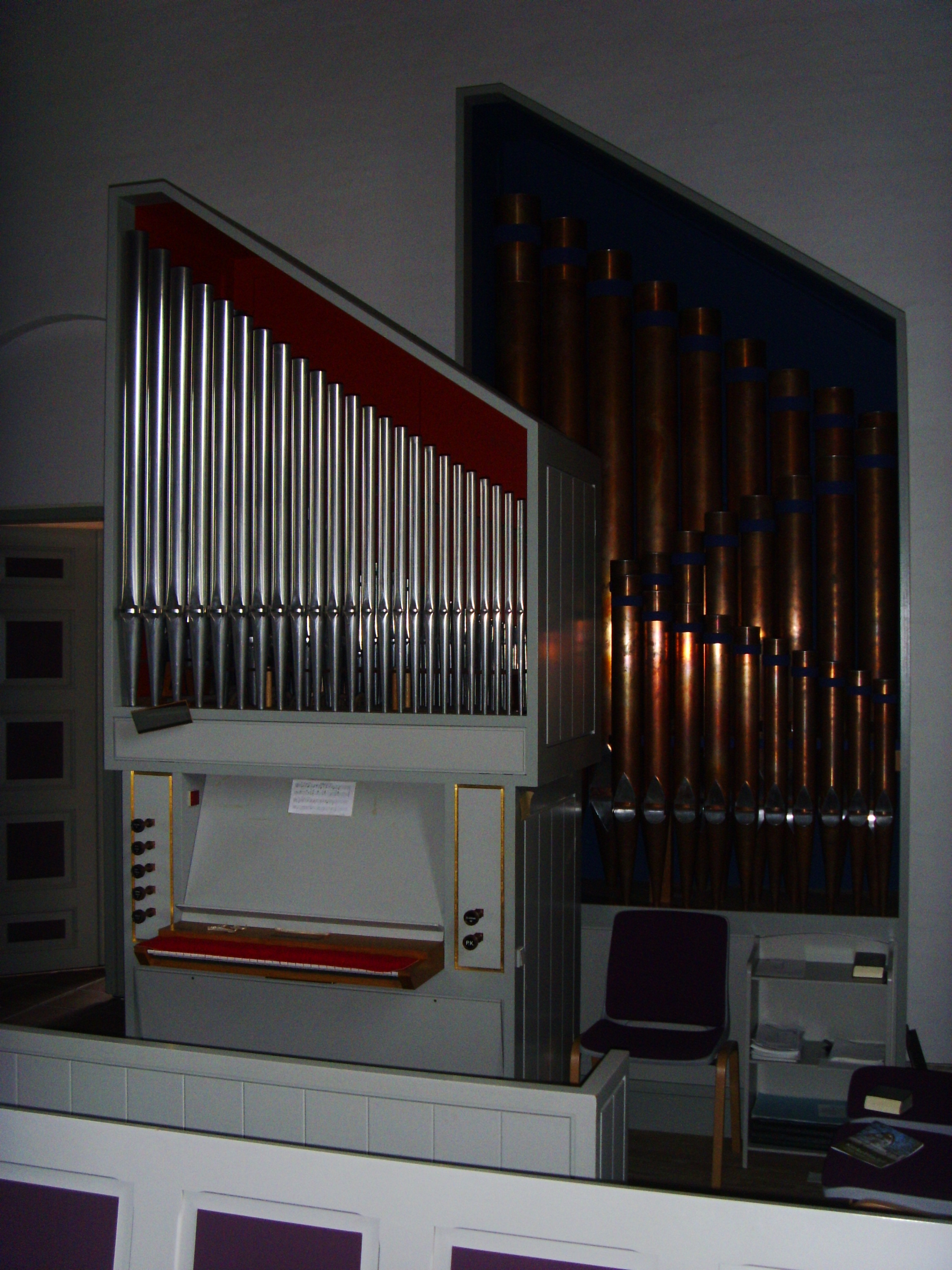 The church in Jerup, Frederikshavn, Denmark.